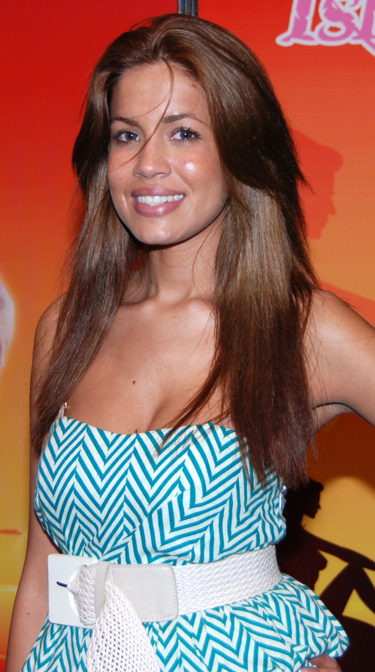 Isis Taylor